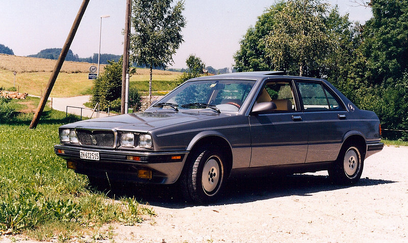 Maserati 430 1989 NB - Car built 1989